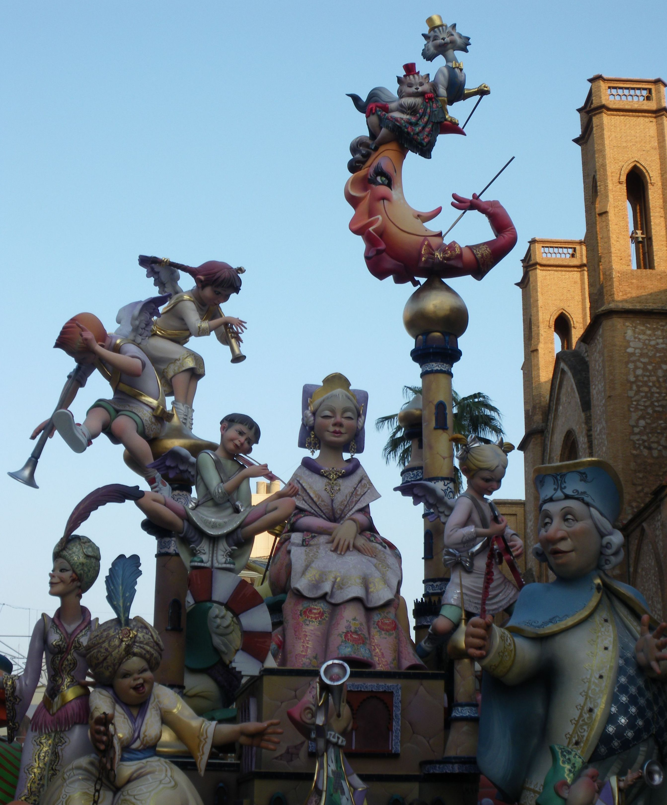 FALLES VALENCIAN FESTIVALS